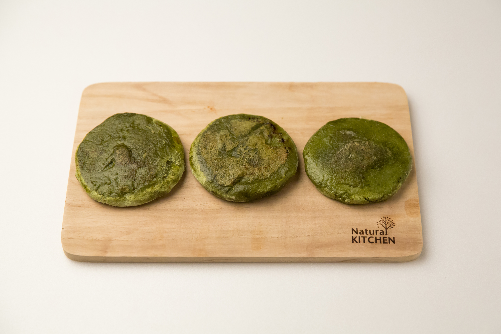 Gaetteok (miscellaneous grain cake)